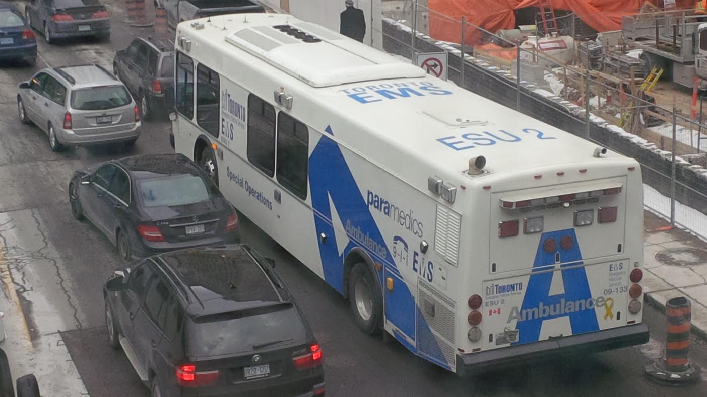 Toronto EMS bus